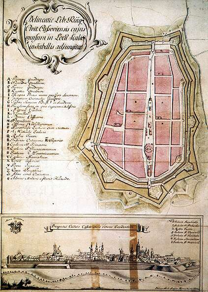 Košice in 1780